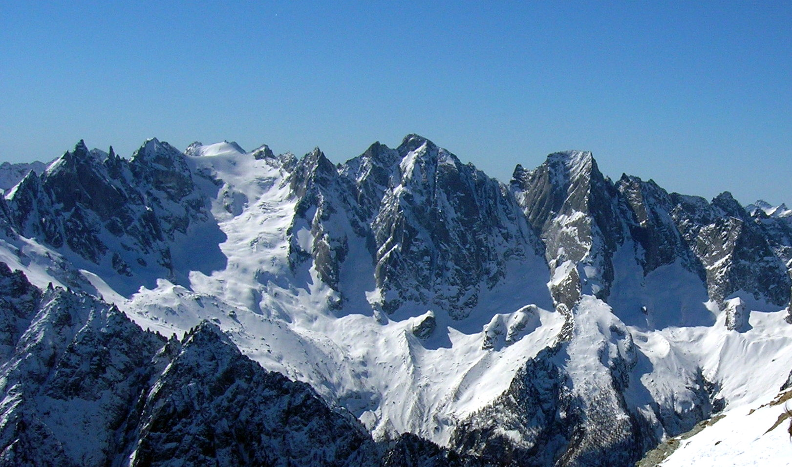 Sciora, Cima della Bondasca, Gemelli, Cengalo, Badile from piz Duan